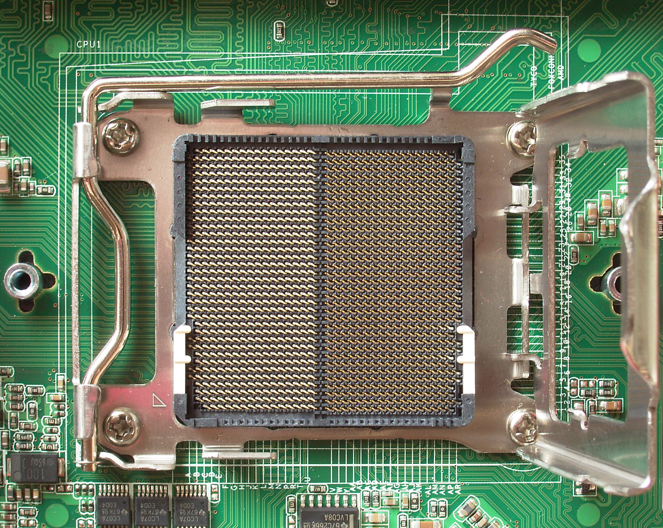 Socket F for AMD Opteron processor, opened